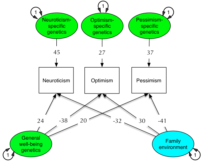 Genetics and family-environmental effects on optimism and pessimism